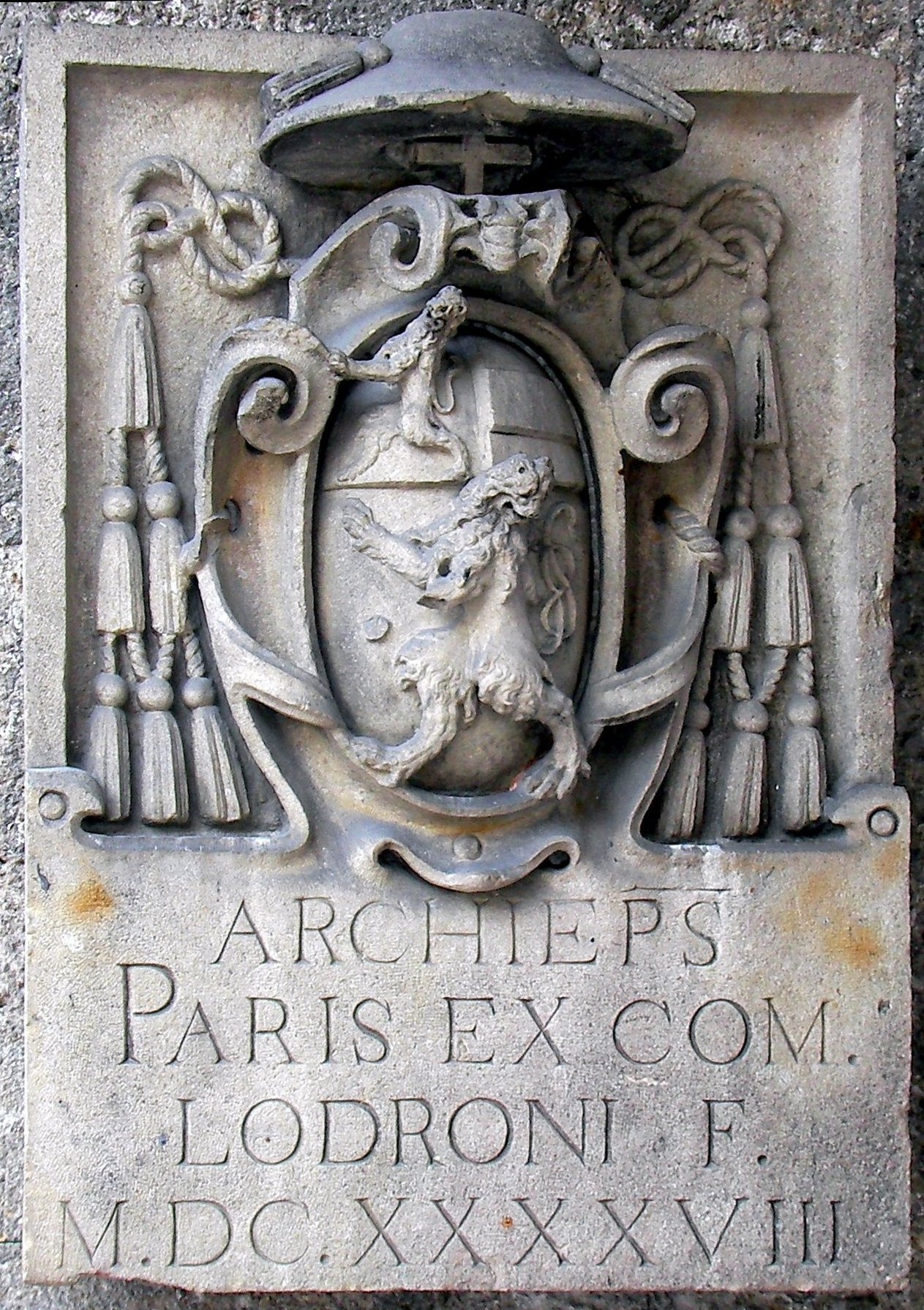 The coat of arms of Paris von Lodron as stone relief